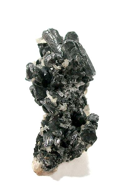 Hessite, Quartz Locality: Botés, Alba County, Romania (Locality at ) Size: miniature, 3.6 x 2.2 x 1.5 cm Hessite on Quartz This is a stellar miniature, far beyond the "reference example" category for the species, featuring unusually thick and stout crystals of this exceptionally rare silver telluride species. This locality is recognized to have produced best of species, but over 150 years ago now! SHARP crystals to 1 cm adorn the top of this knoll of quartz matrix. It is as good as you can reasonably expect to find at a reasonable price point, and also fairly displayable. 3.6 x 2.2 x 1.5 cm